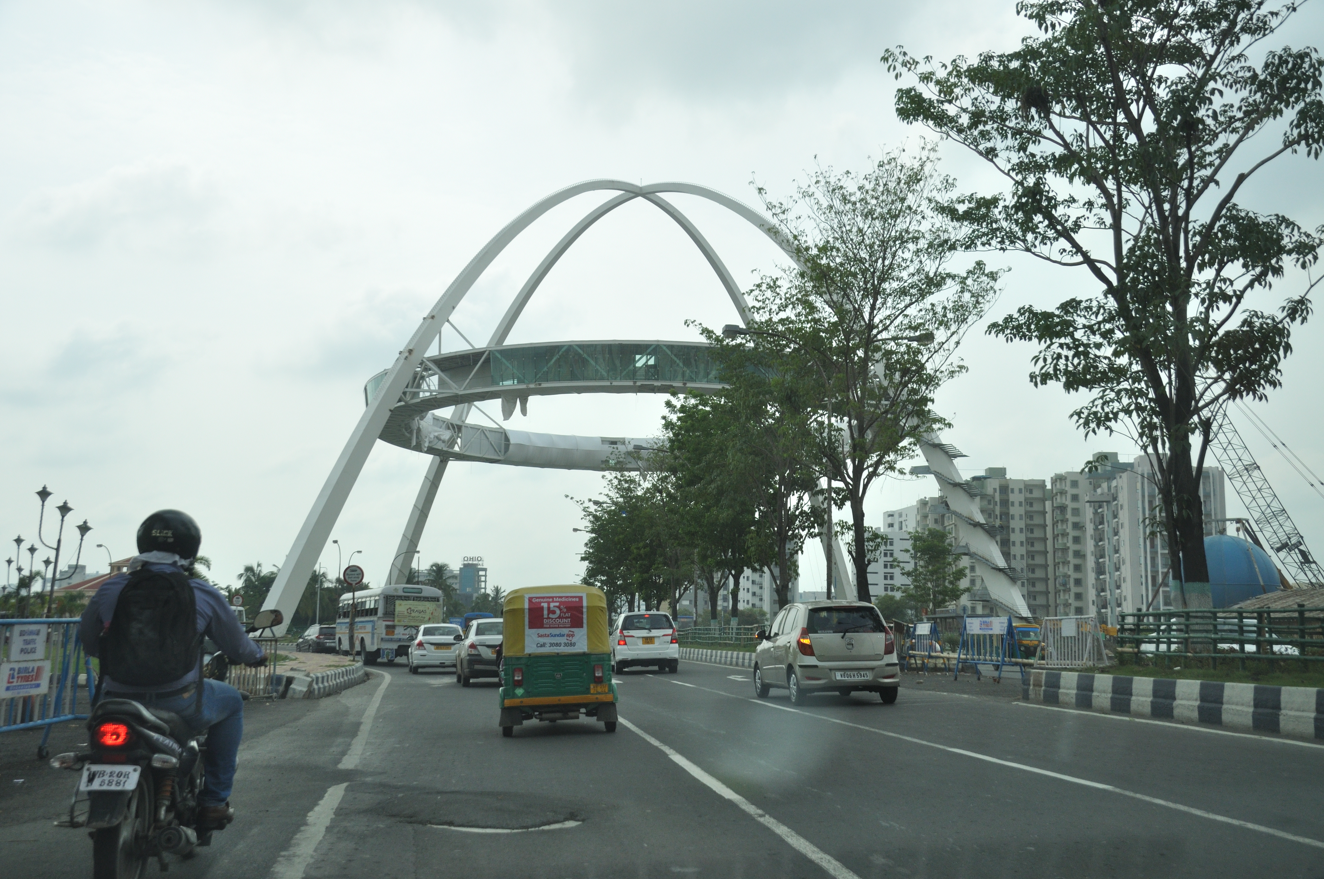 Photographed in greater Kolkata.